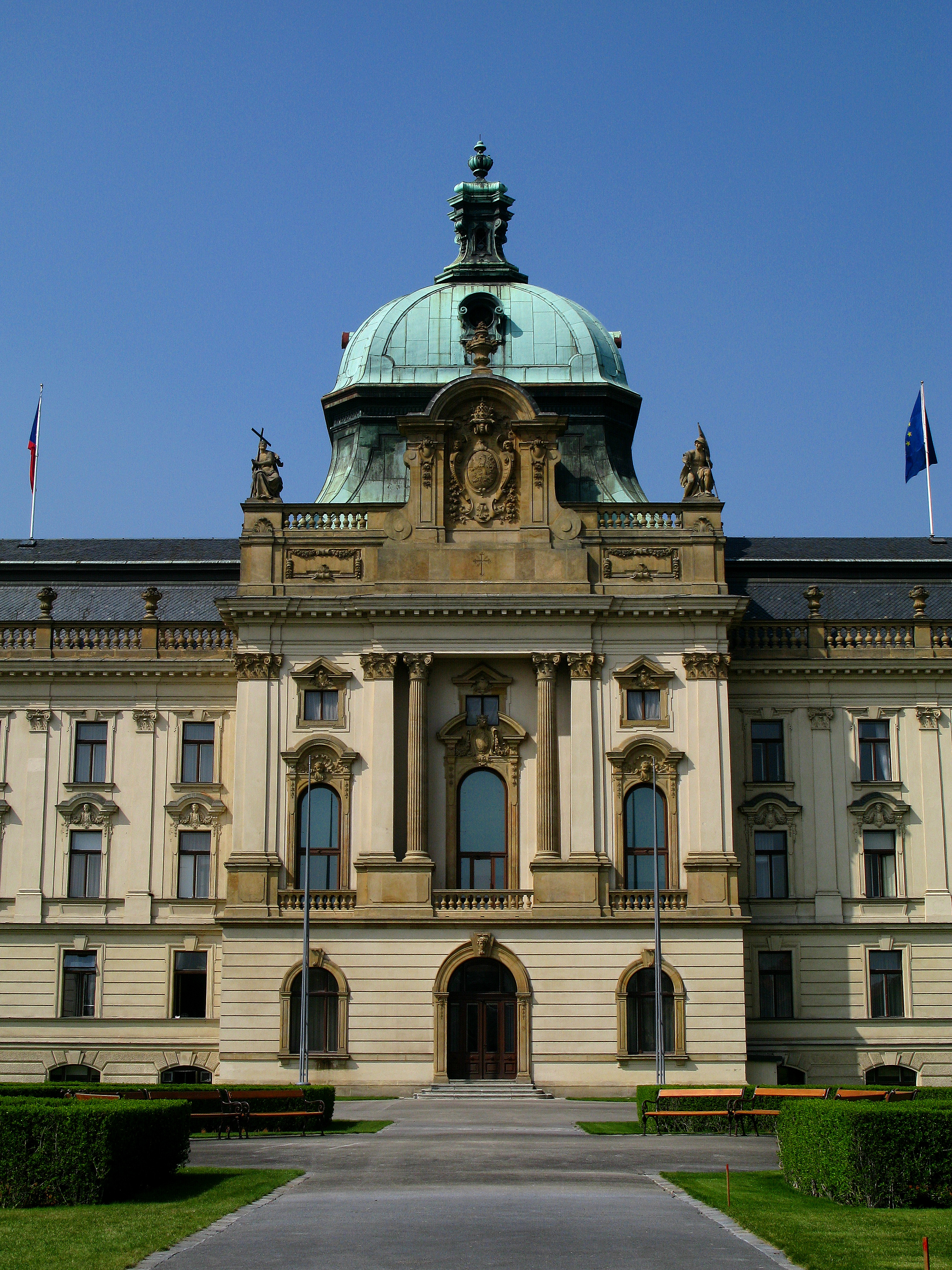 Strakas Academy